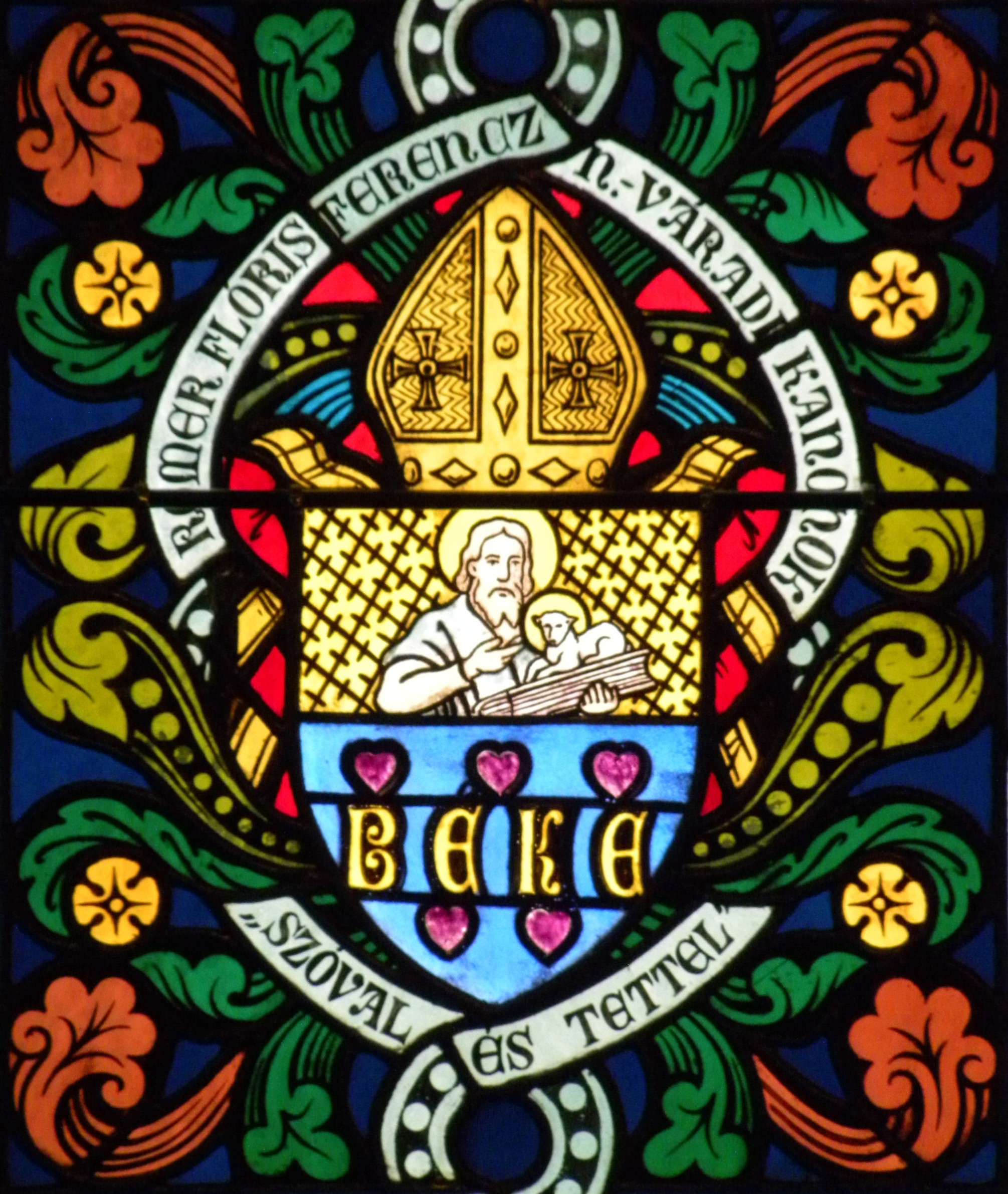 Coat of arms of Flóris Ferenc Rómer (1815 - 1889), member or the cathedral chaper of Oradea Mare (1877 - 1889). Stained glass window with St. Francis of Assisi in Matthias Church, Budapest. Inscription: "RÓMER FLÓRIS FERENCZ = N.-VÁRADI KANONOK = "SZÓVAL ÉS TETTEL"".